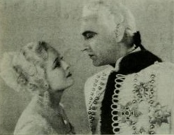 Marian Nixon and John Barrymore in the American historical melodrama film General Crack (1929), from January 1930 Photoplay Magazine.